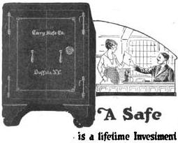 Advertisement image and slogan for a double door Cary safe